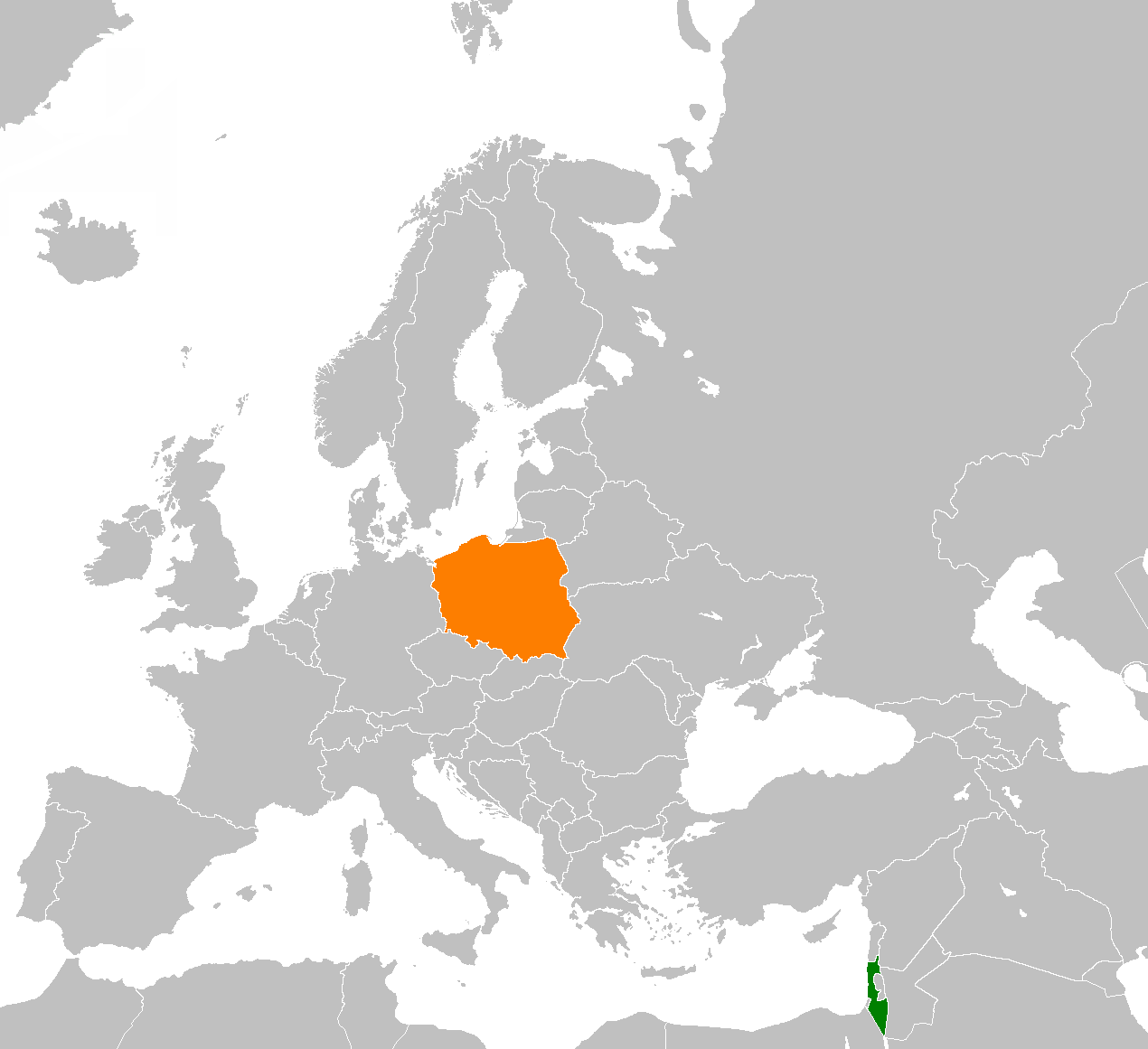 Israel Poland Locator